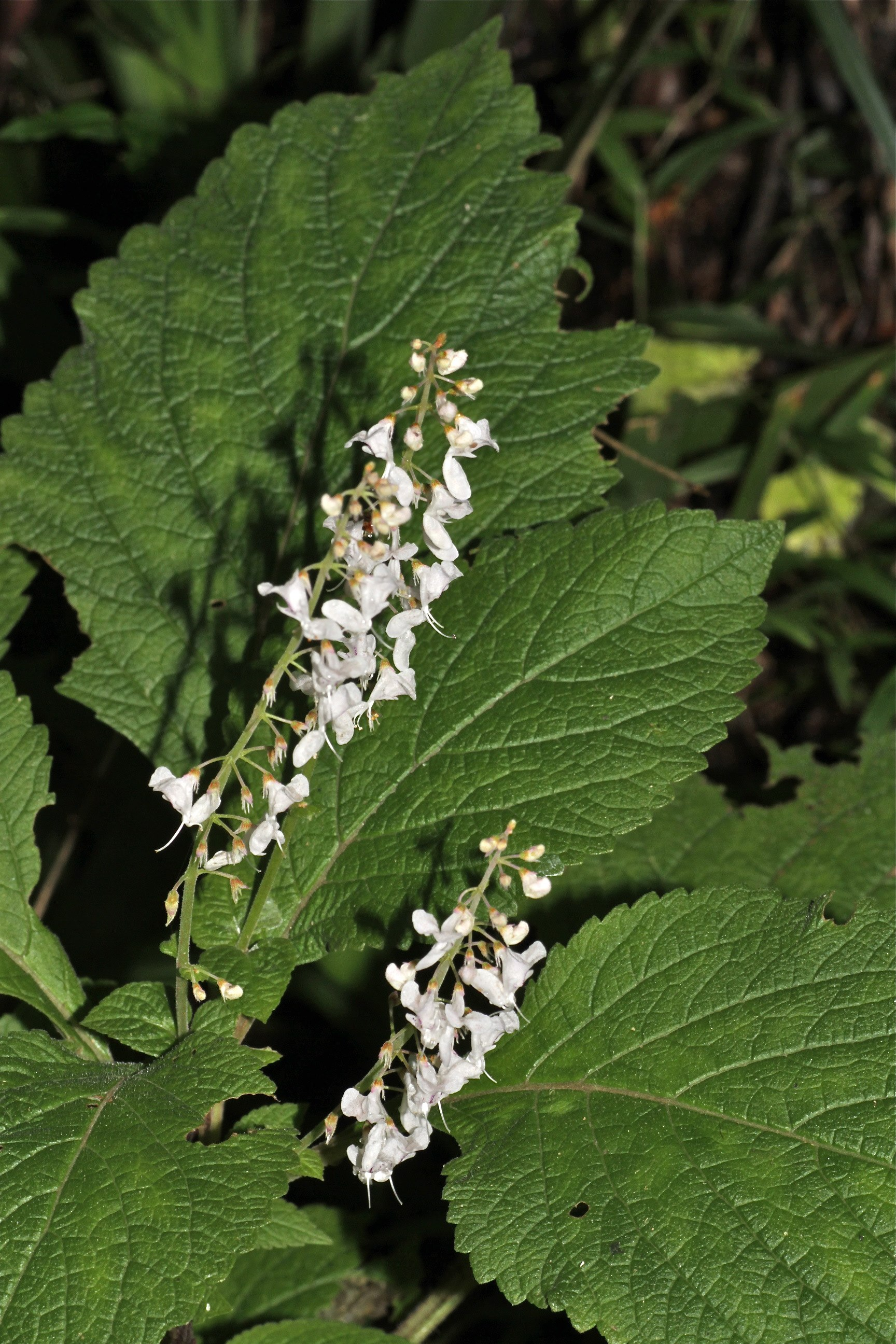 South Africa. Royal Natal NP